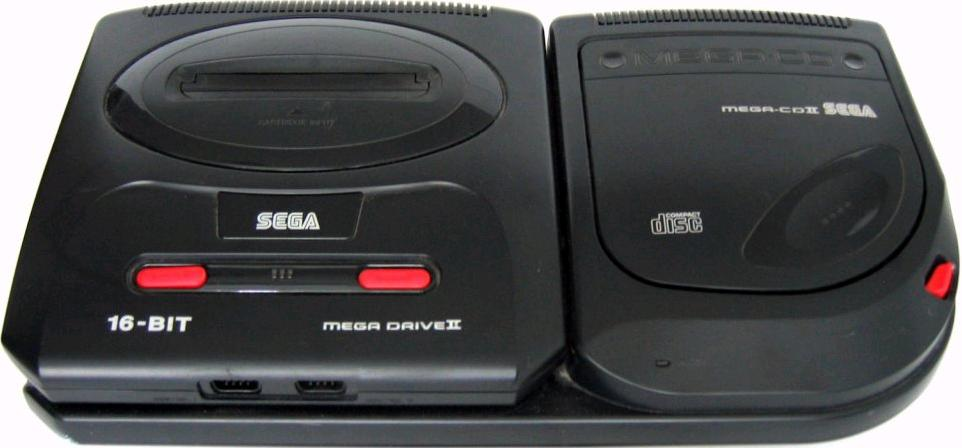 European Sega Mega-CD II, attached to a Mega Drive II